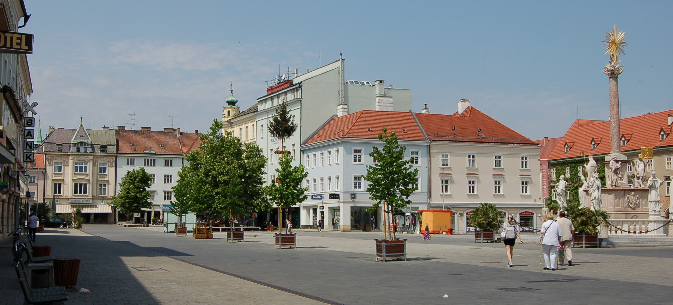 View across Wiener Neustadt Main square towards west, showing the so called "Platzl" (a number of houses built in the square) and the Virgin Mary's column